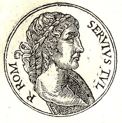 Servius Tullius was the sixth legendary king of ancient Rome and the second king of the Etruscan dynasty.